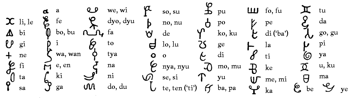 The Afaka script as transcribed by C. Bonne in 1920. The orthography has been converted to modern usage.